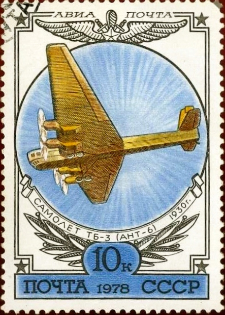 1978 Soviet Union 10 kopeks stamp. Tupolev TB-3.